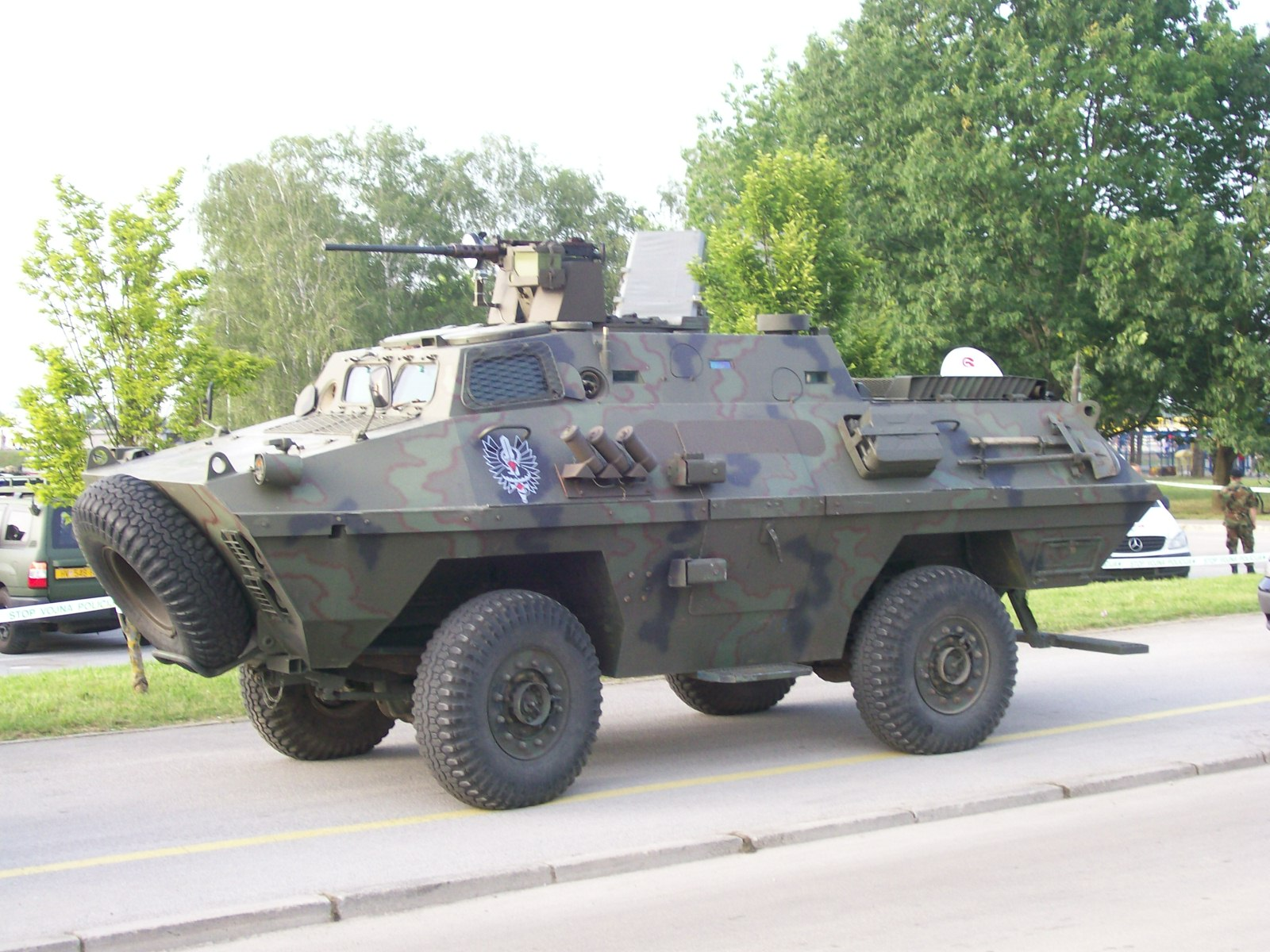 BOV of the croatian Special Operations Battalion